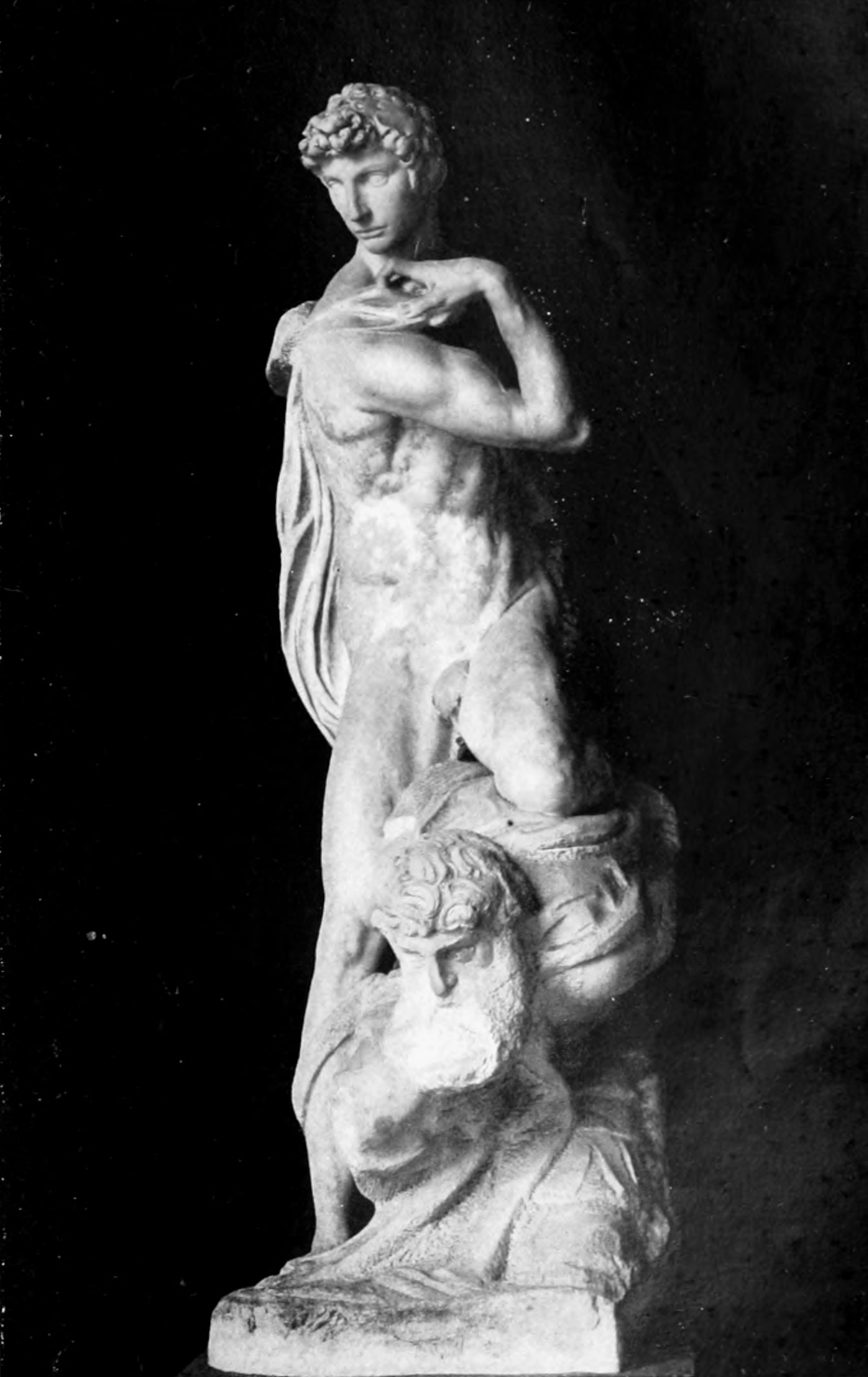 Illustrations from The Life of Michael Angelo by Romain Rolland, translated by Frederic Lees: Victory